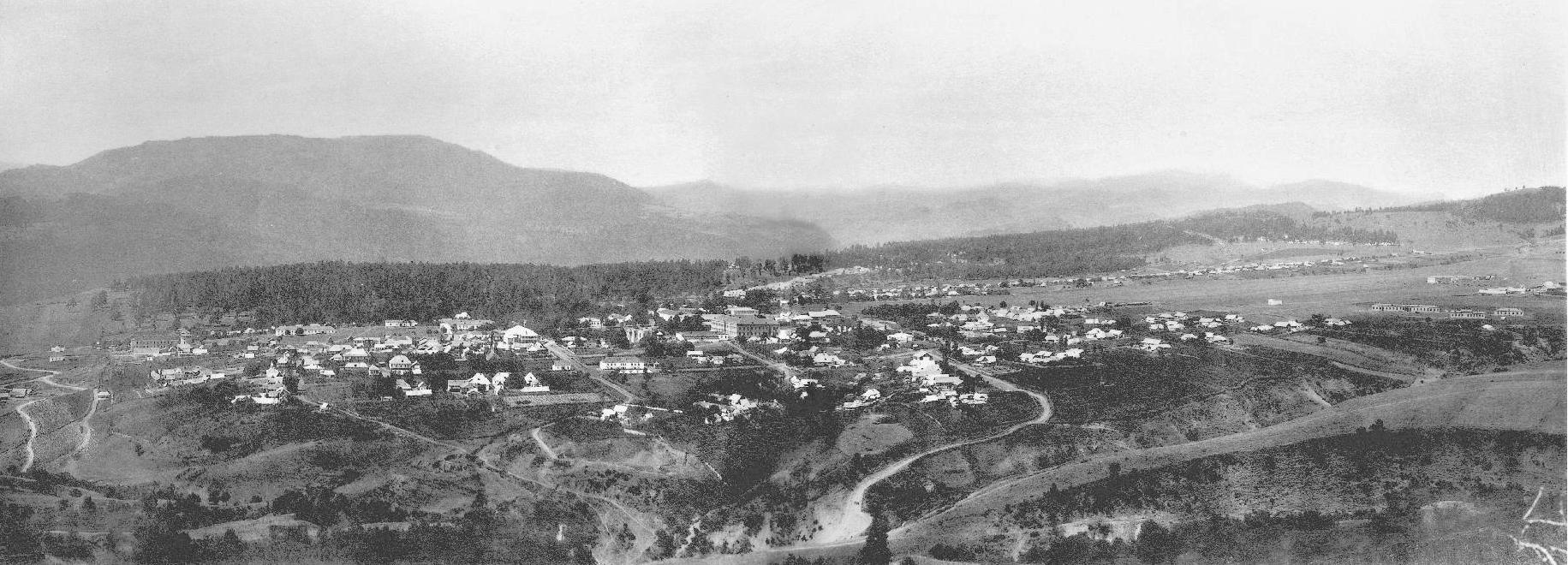 View of Manglisi in 1892